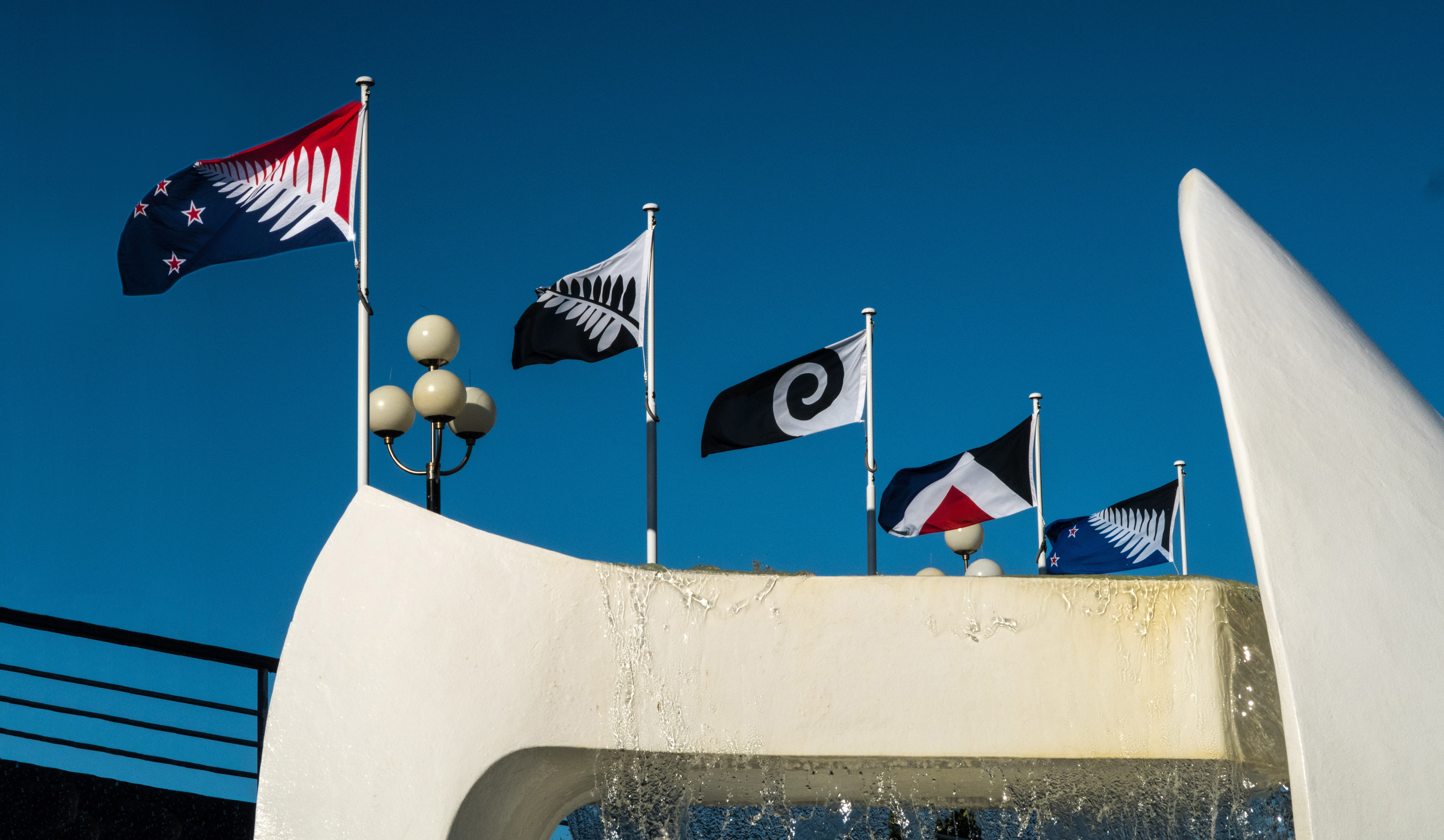 Five proposed flags of New Zealand that were included in 2015 flag referendum; here lined up behind the Albatross Fountain on Wellington Waterfront.